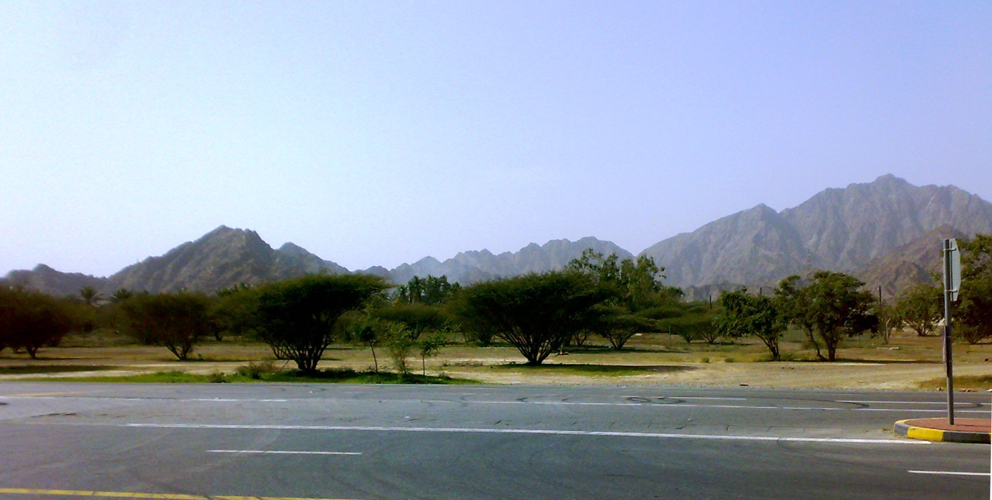 image from the northern part of the emirate of Fujeirah, in the eastern United Arab Emirates (by the Indian Ocean)